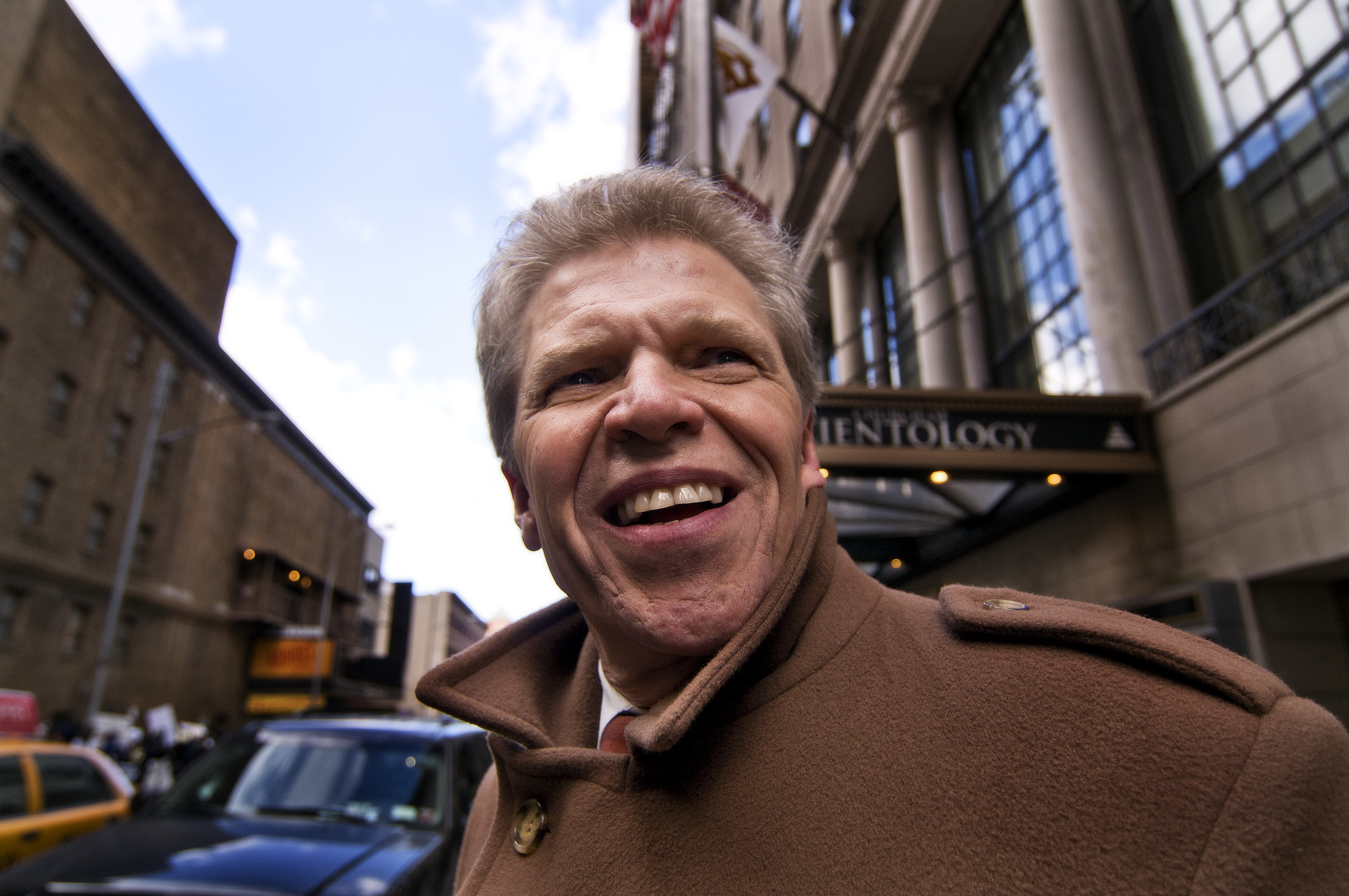 "Rev." John Carmichael - President of the Church of Scientology in New York - immediately after his attempt to recruit me to Scientology in New York 10th March 2008.